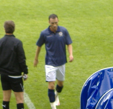 Hackett playing for Millwall against Burnley, Oct 2010